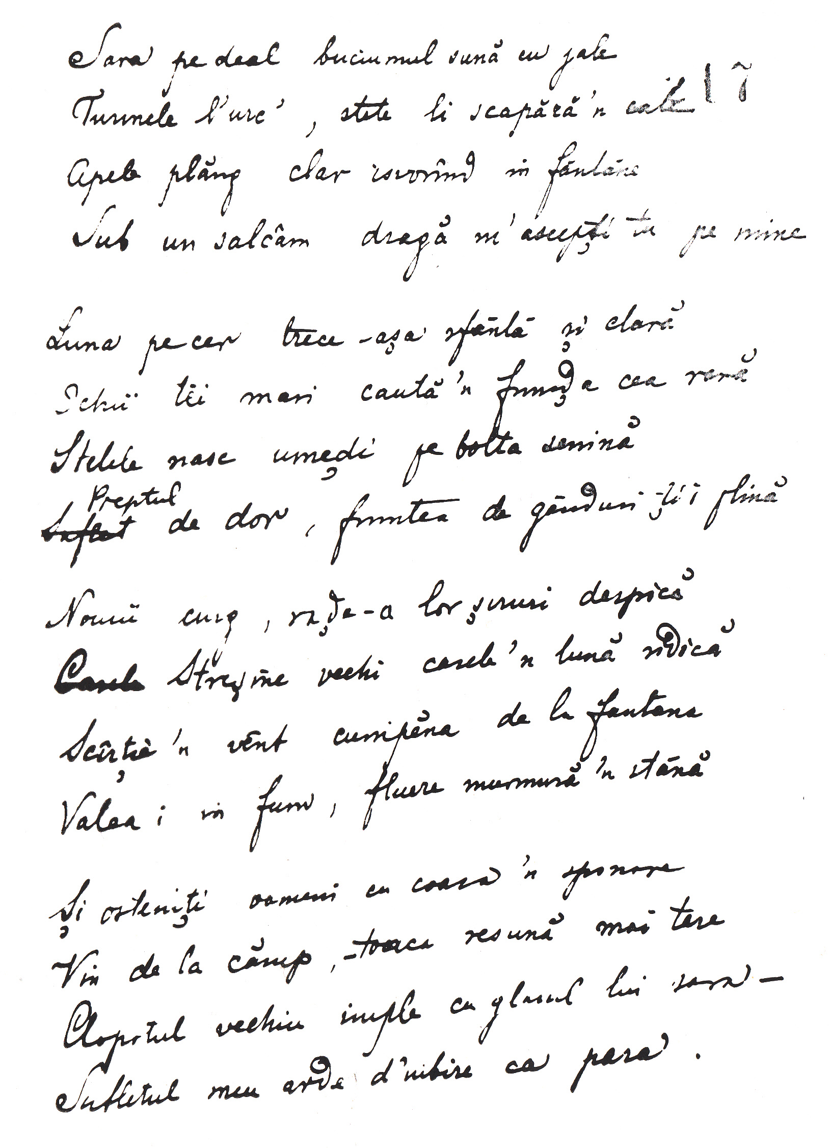 Penultimate version of Sara pe deal ("Evening on the Hill") poem.